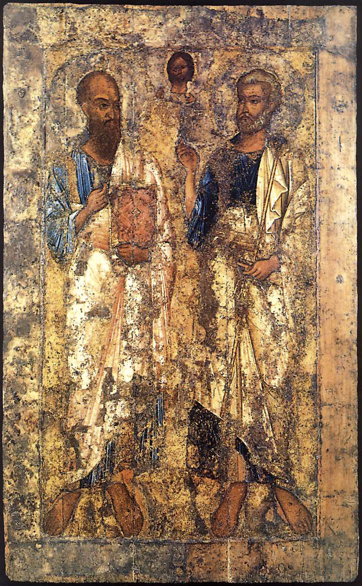 Saint Peter and Paul (one of the oldest icons of Russia)